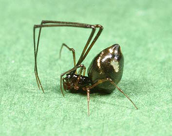 female Argyrodes xiphias from Okinawa.